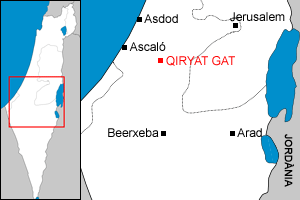 Localization of Qiryat Gat within Israel.